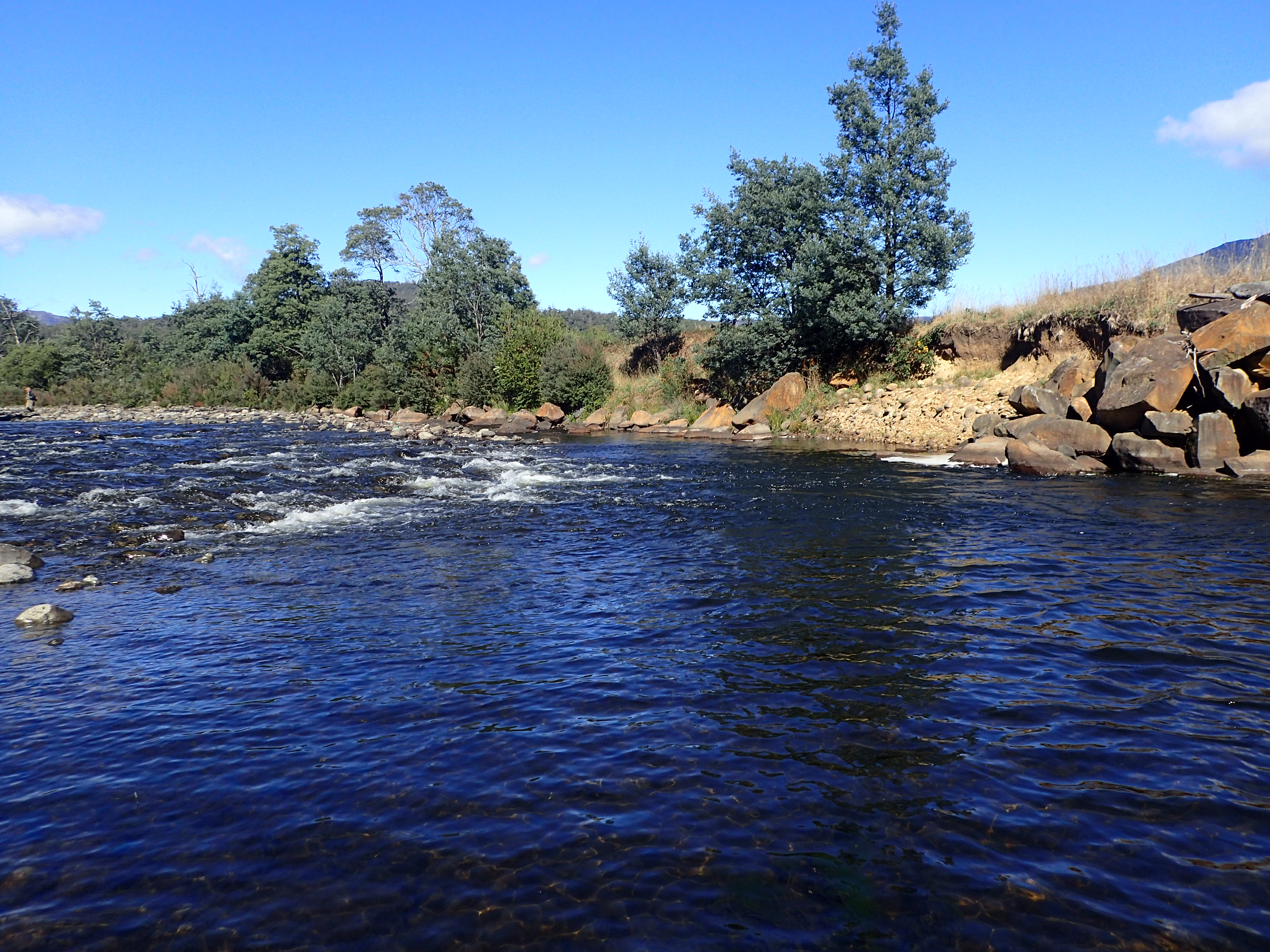 Meander River, April 2017, upriver from Meander, Tasmania